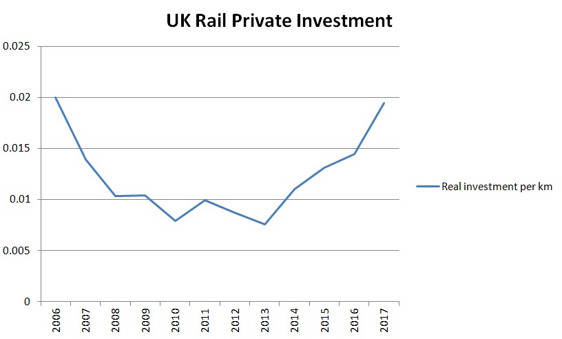 Pence of government subsidies per passenger-km traveled with rail.